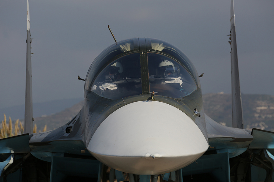 Russian Sukhoi Su-34 at Latakia